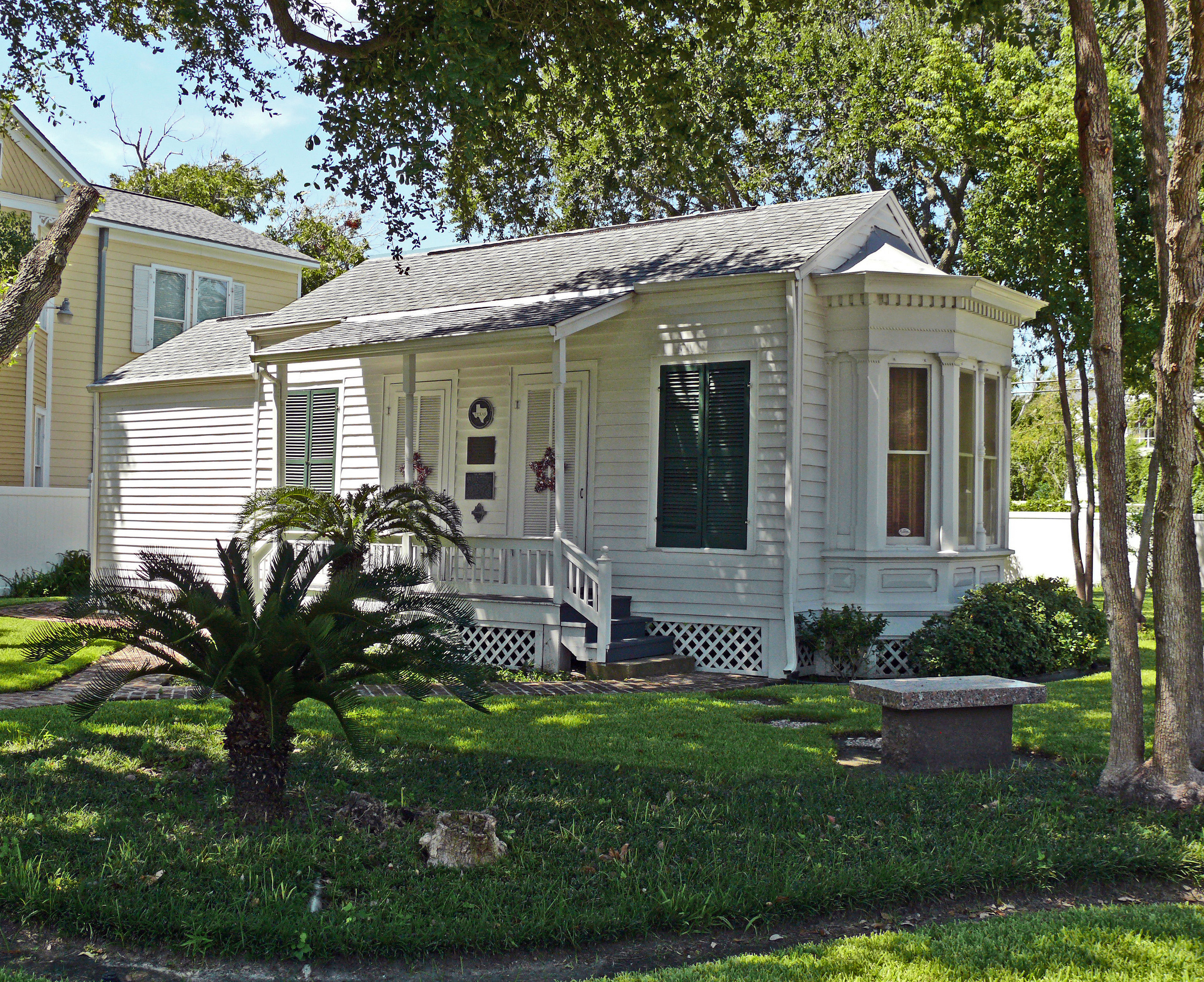 This is the building in which in 1891 Misses Betty Ballinger and Hally Bryan founded the Daughters of the Republic of Texas, a society for historical preservation. This Victorian structure was then library of "The Oaks," family home of the founders, who were descendants of William H. Jack, a soldier in 1836 Texas victory at San Jacinto and an official of the Republic. First president (1891-1908) of D. R. T. was widow of last Texas president, Anson Jones.